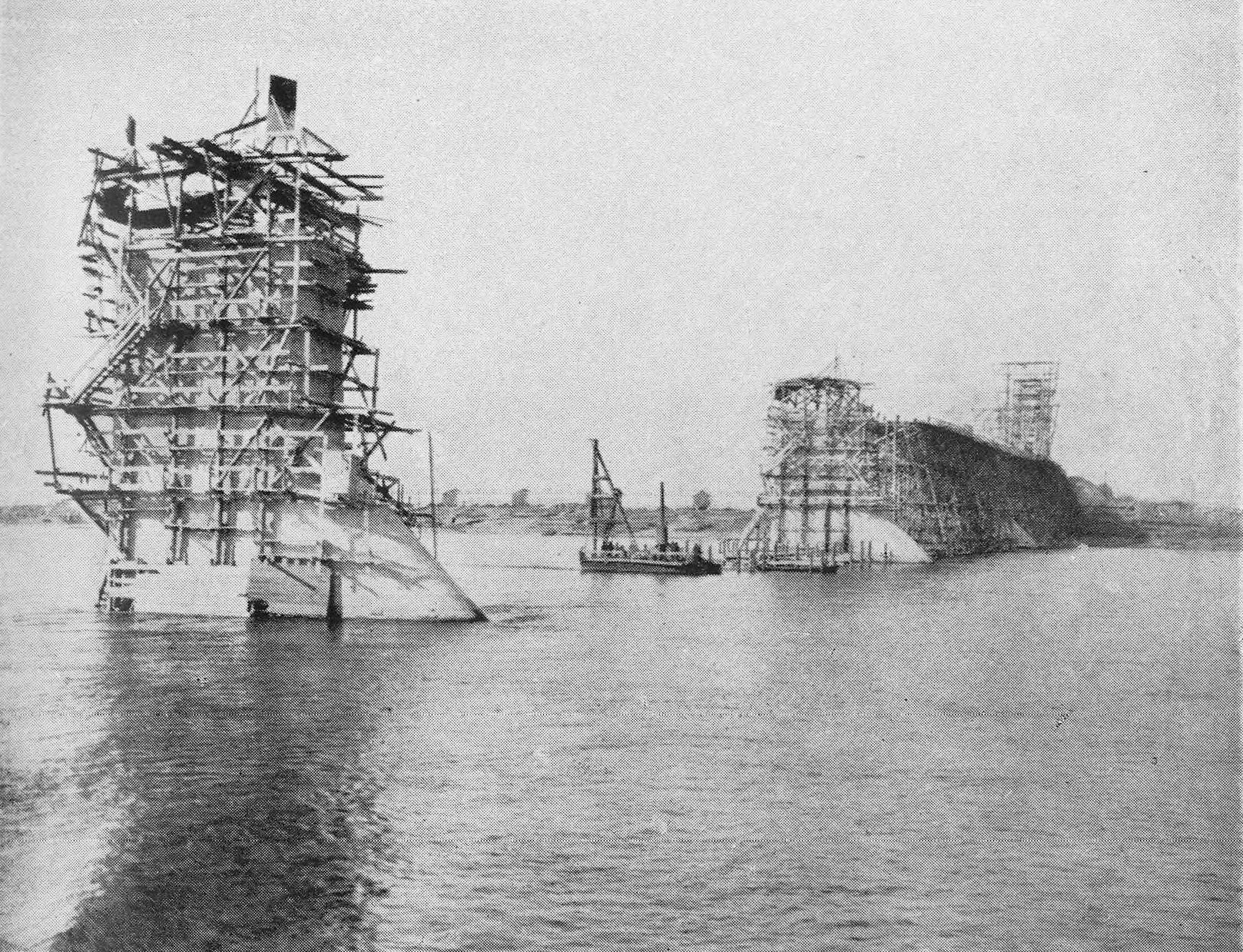 The railway bridge across the Seya at Alexeyevsk